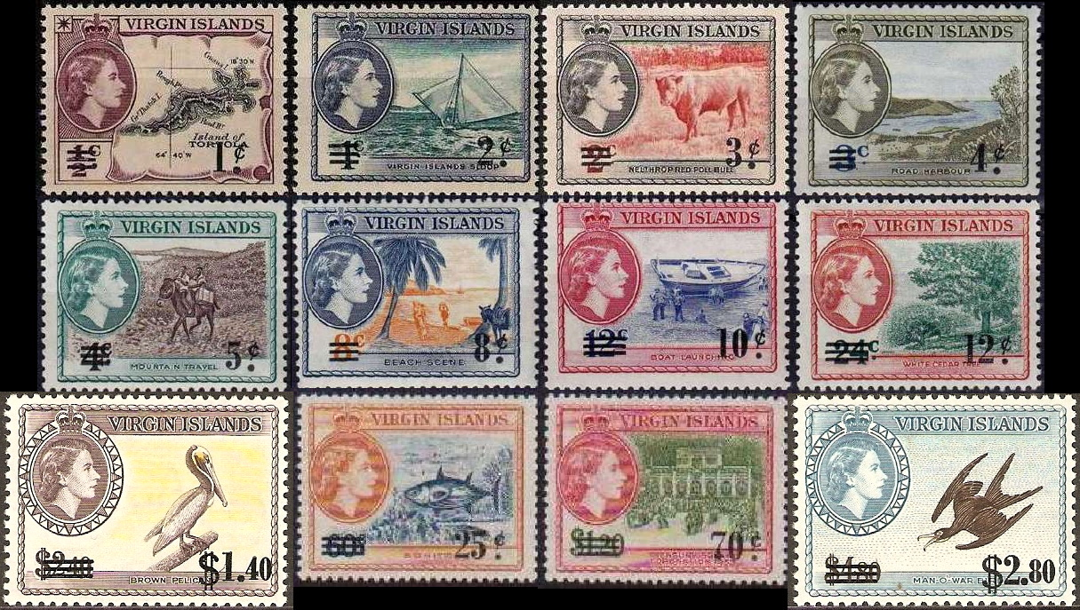 1962 set of British Virgin Islands defintive stamps overprinted with US$ denominations